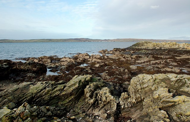 On The Rocks The rocky surface of Eilean Mhic Ghoile, with Bruichladdich visible in the background, across Loch Indaal.